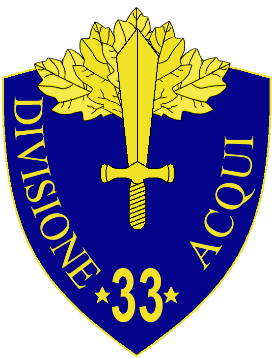 33a Divisione Fanteria Acqui insignia, Regio Esercito, Italy, WWII